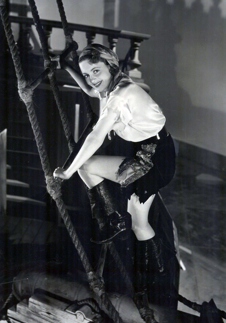 Olivia de Havilland publicity photo for Captain Blood, 1935